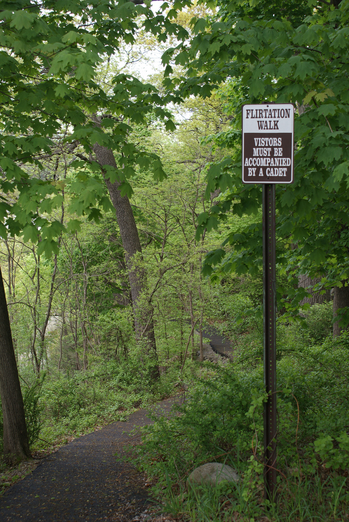 Sign at the Trophy Point entrance to Flirtation Walk.